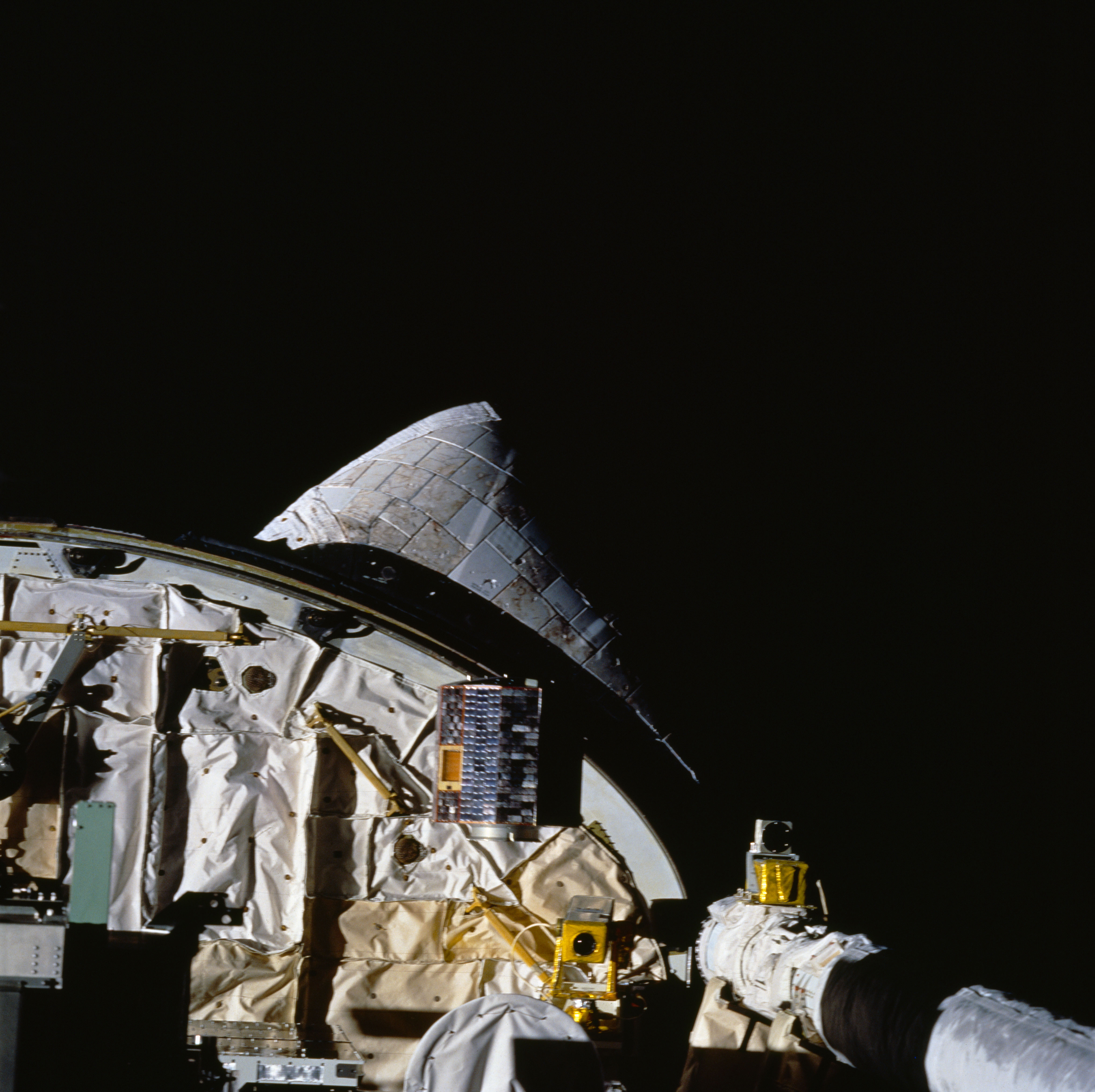 Releas of BremSat from shuttle Discovery's cargo bay.